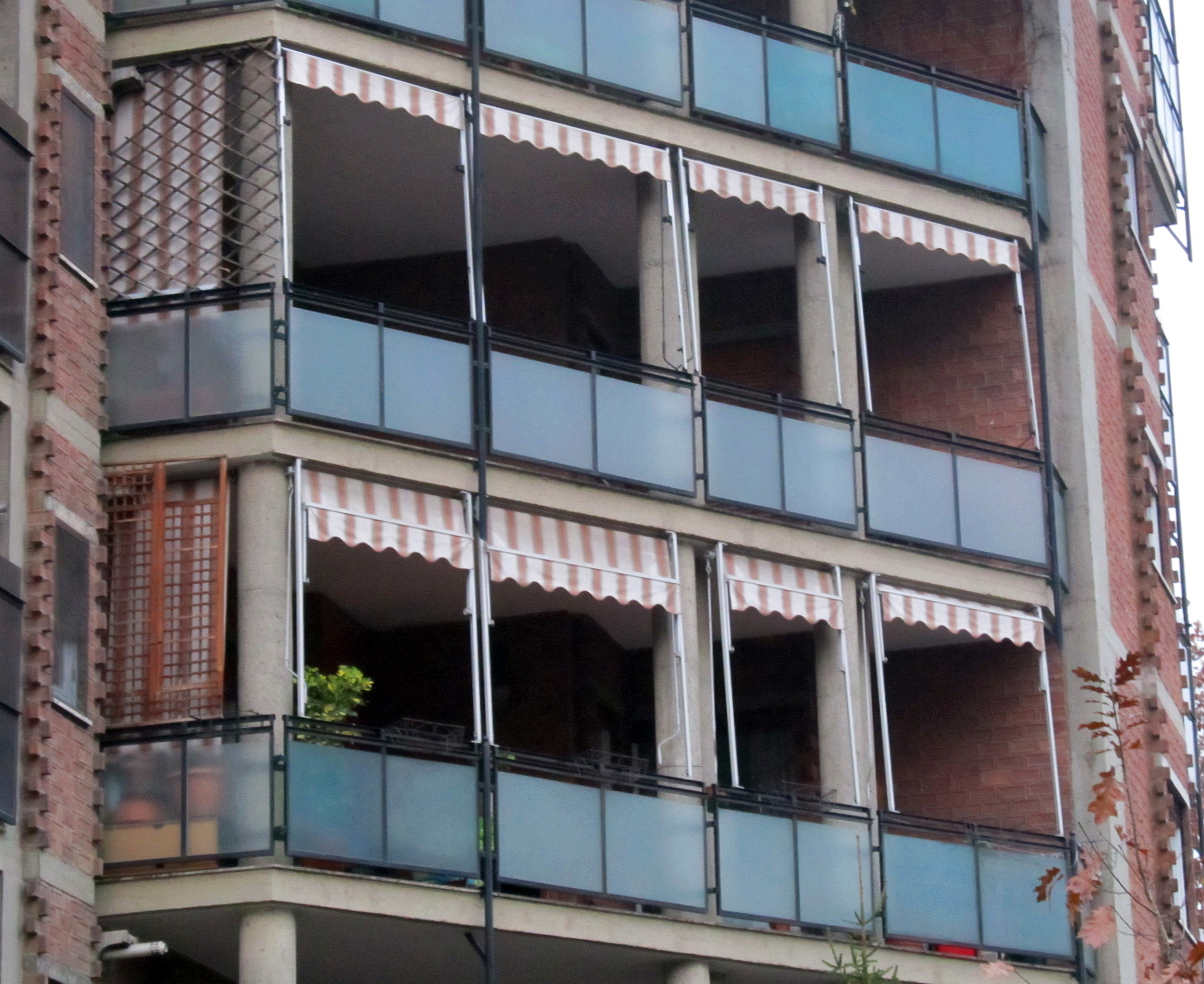 Torri Pitagora (Turin, Italy); architects: Sergio Jaretti Sodano and Elio Luzi